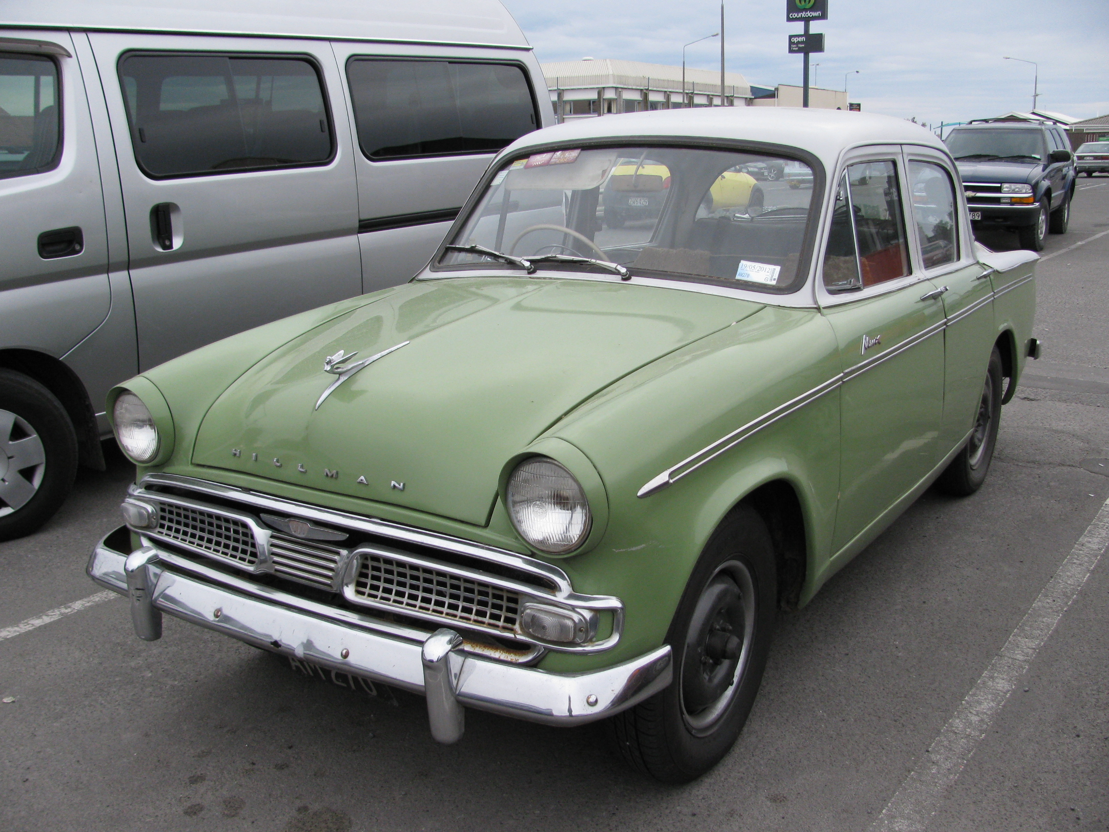 AM270 Looking like it would have thirty years ago, this Minx was a lovely surprise at the Ford meet a fortnight ago. I think these cars are great - but then again, that is just my liking for any Rootes Group product! Fantastic colour on this Minx - and a shade I have never seen on one before. There were quite a few period stickers on the rear windscreen - I have a photo of them, so if anyone would like to see it, just ask. My idea of the owner would be a somewhat eccentric elderly man with a pipe in his mouth, wearing a knitted cardigan and driving at a breakneck speed around town!